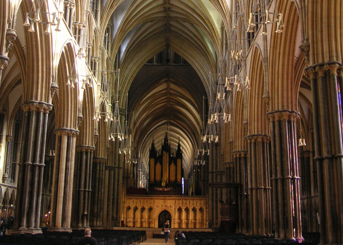 England, Lincoln Cathedral, the Nave looking east